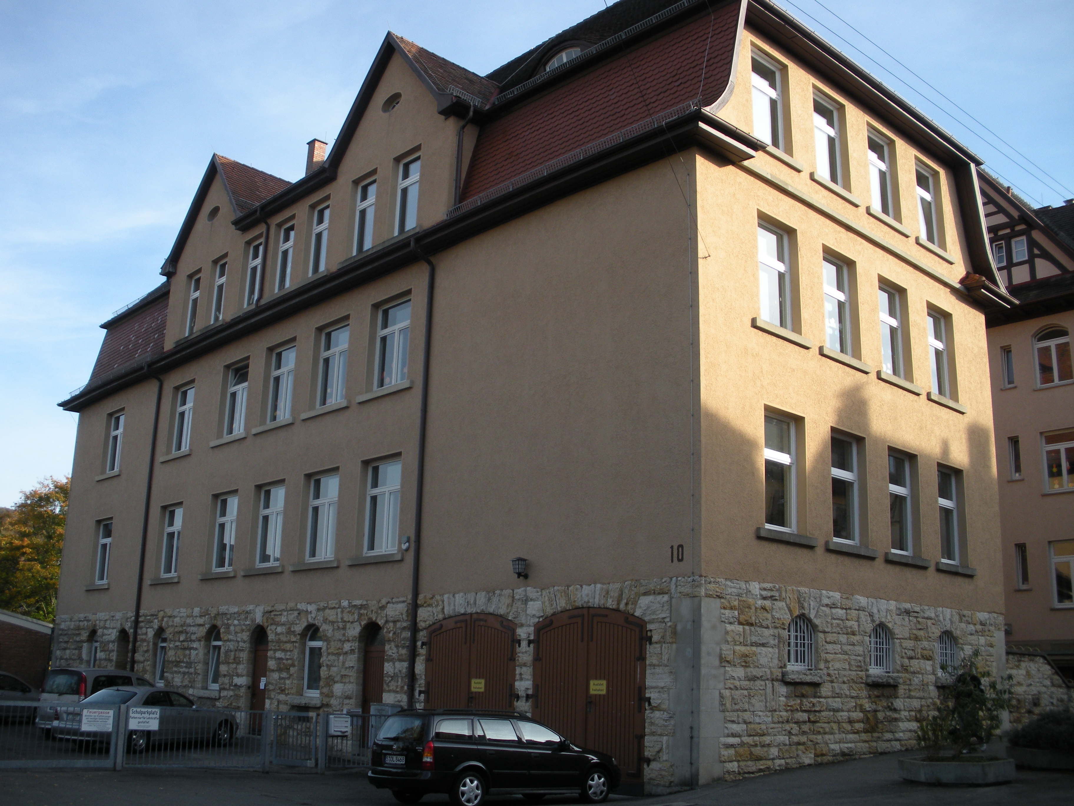 Franz Schubert School in Stuttgart-Botnang